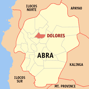 Map of Abra showing the location of Dolores